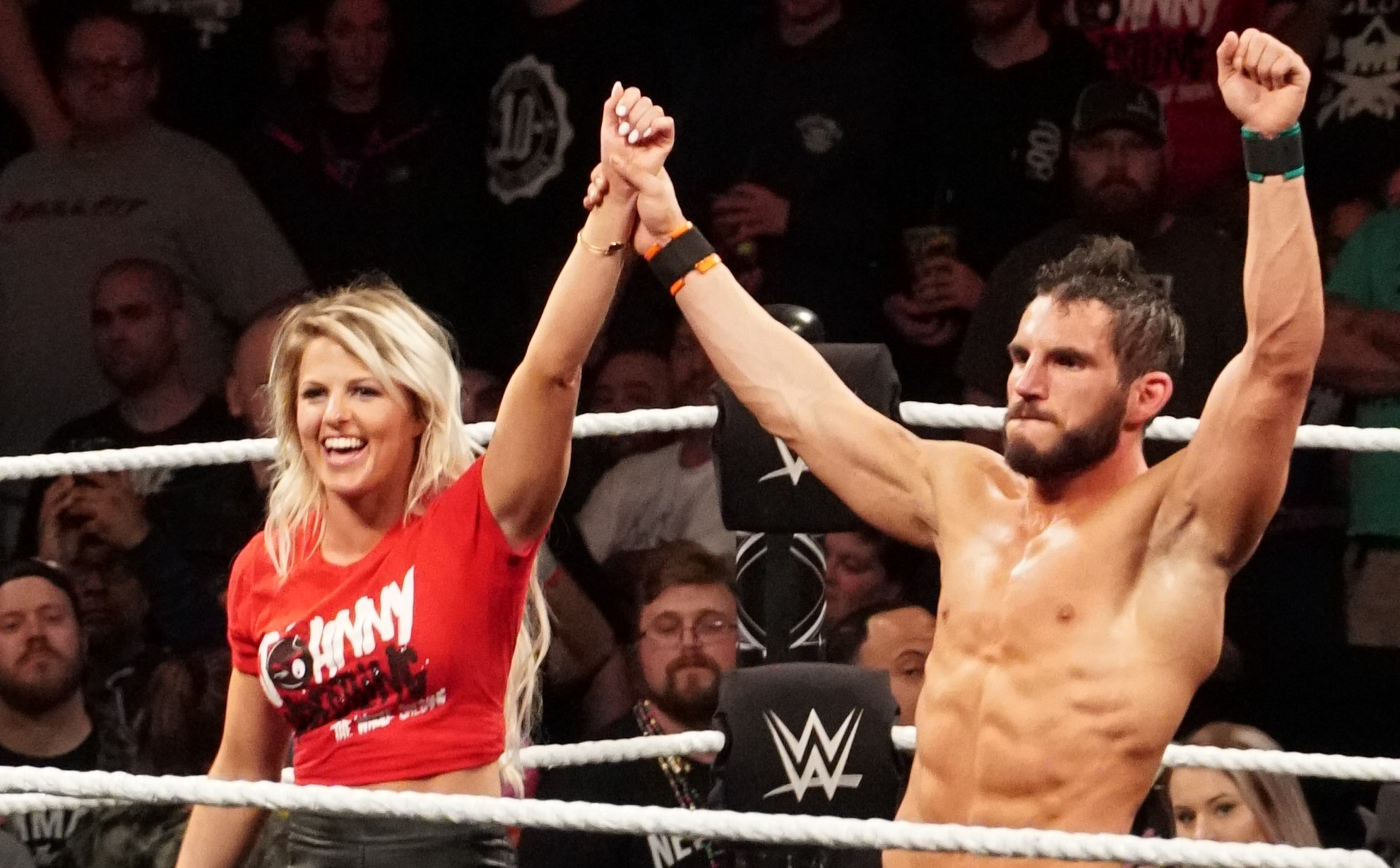 Johnny Gargano celebrating with his wife Candice LeRae after his victory at NXT TakeOver: New Orelans in April 2018.